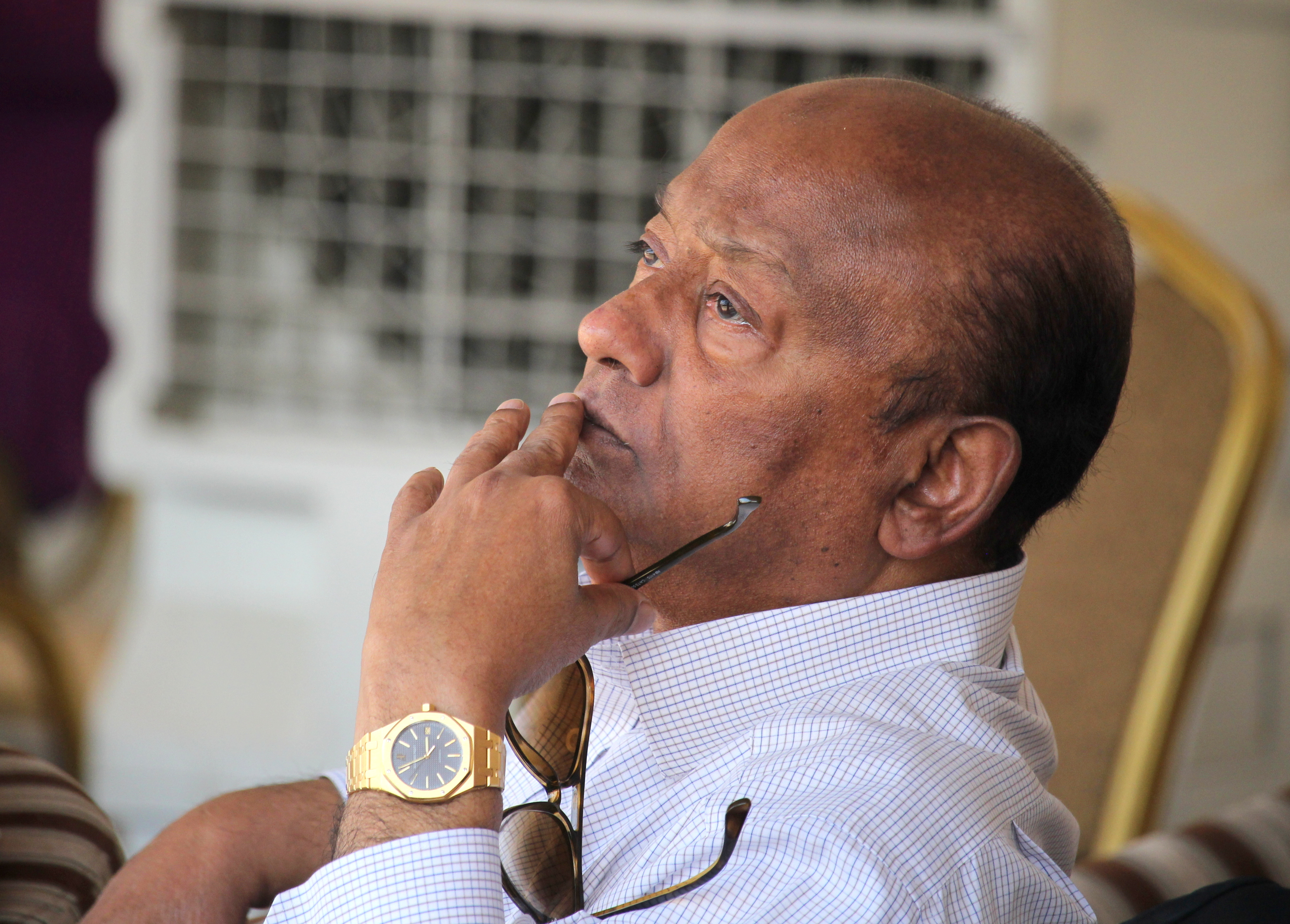 Latifur Rahman is a Bangladeshi comprador and businessperson. He serves as the Chairman of Transcom Group which is the local agent or comprador of numerous international brands like Pizza Hut, KFC, Pepsi and Philips, etc